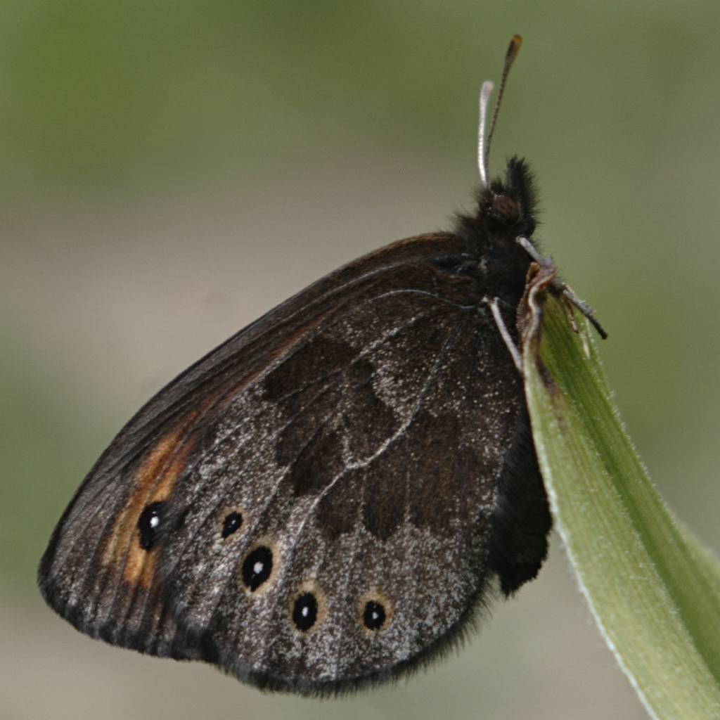 Common Alpine, Erebia epipsodea, showing underside of wing. Santa Fe Ski Basin, Santa Fe County, New Mexico. Same individual as File:Erebia epipsodea dorsal.jpg.